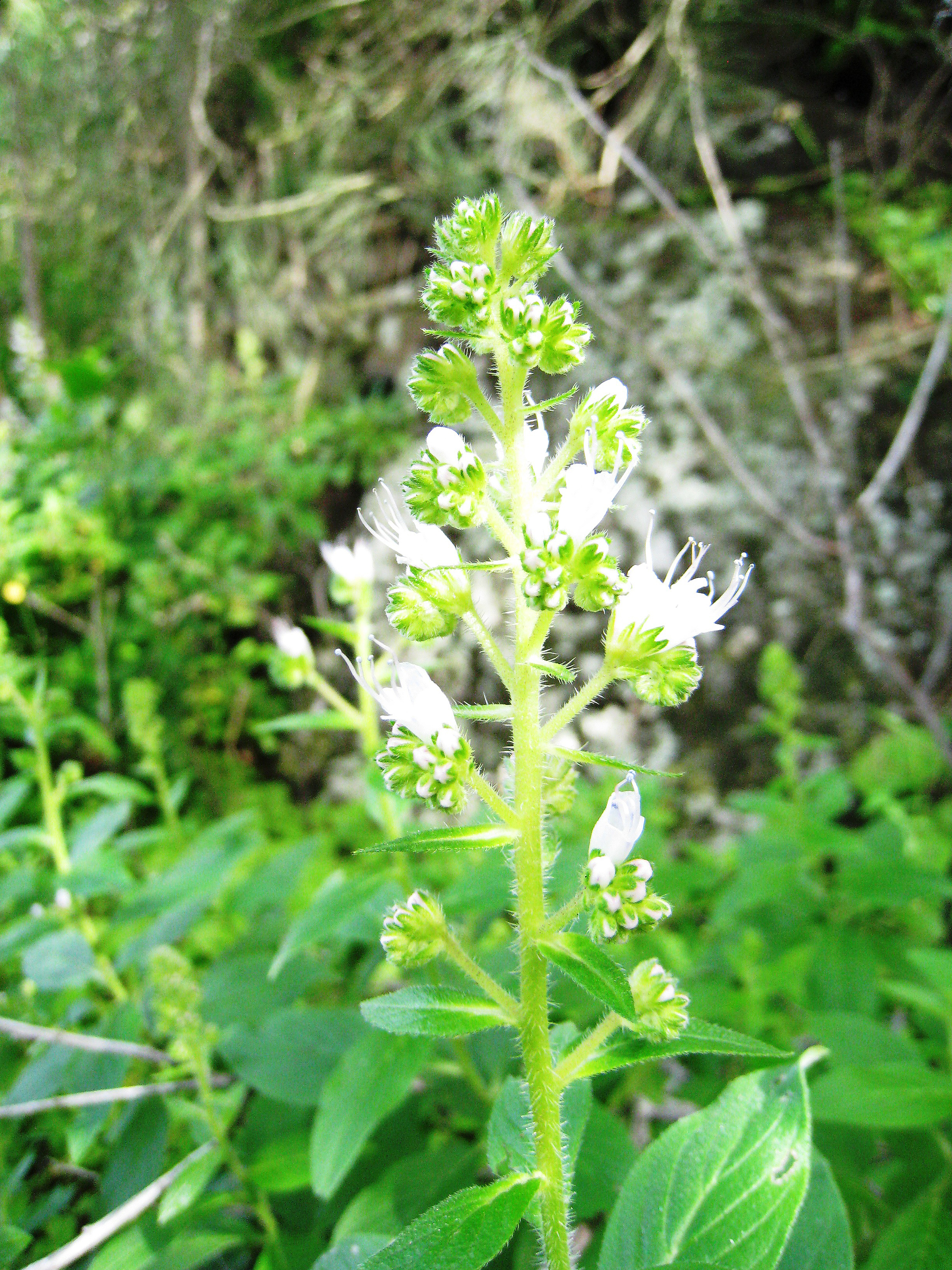 Specimen in cultivation at the Botanical Garden Viera y Clavijo in Gran Canaria Island.